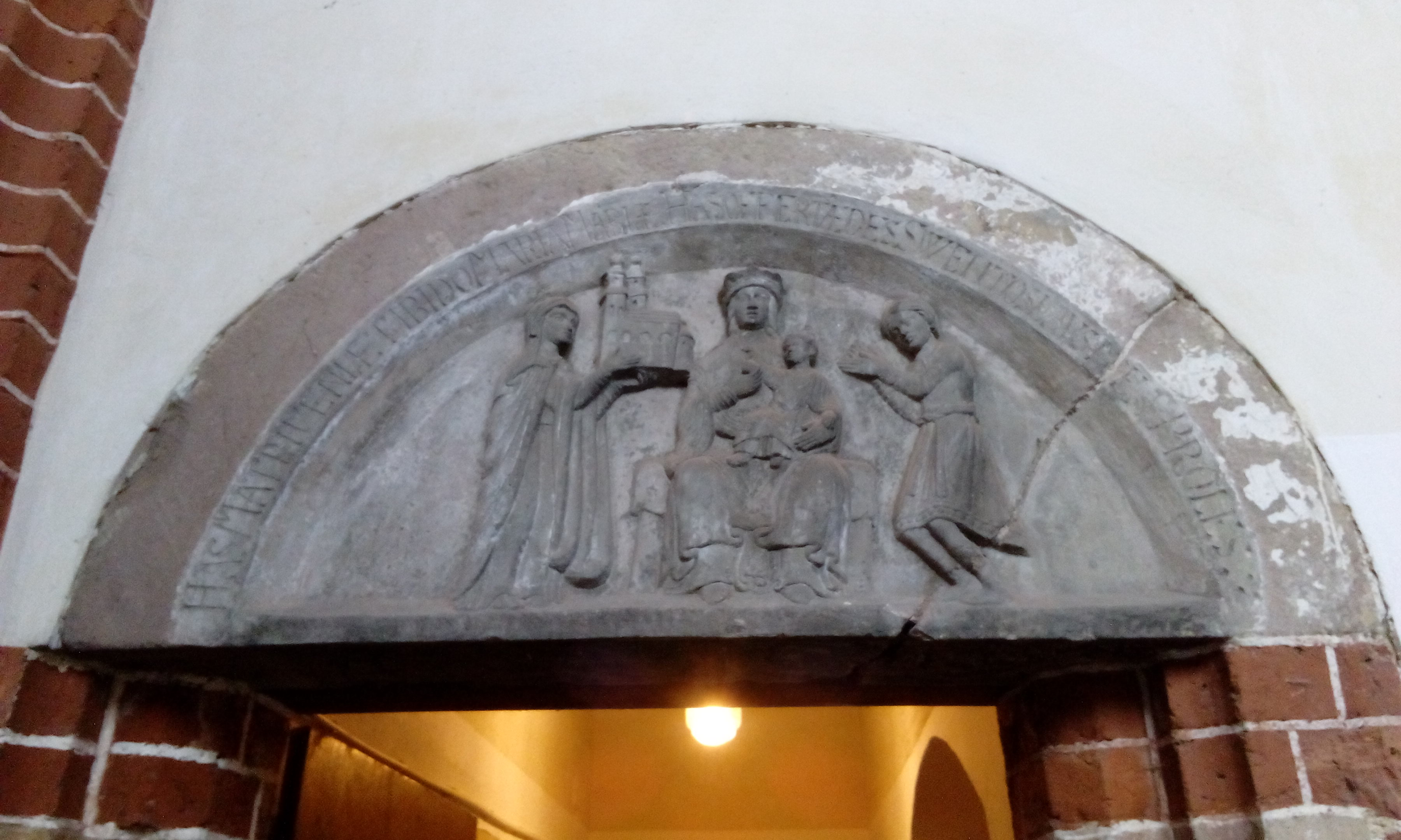 Tympanum of the previous romanesque church St. Mary on the Sands in Wrocław/Breslau